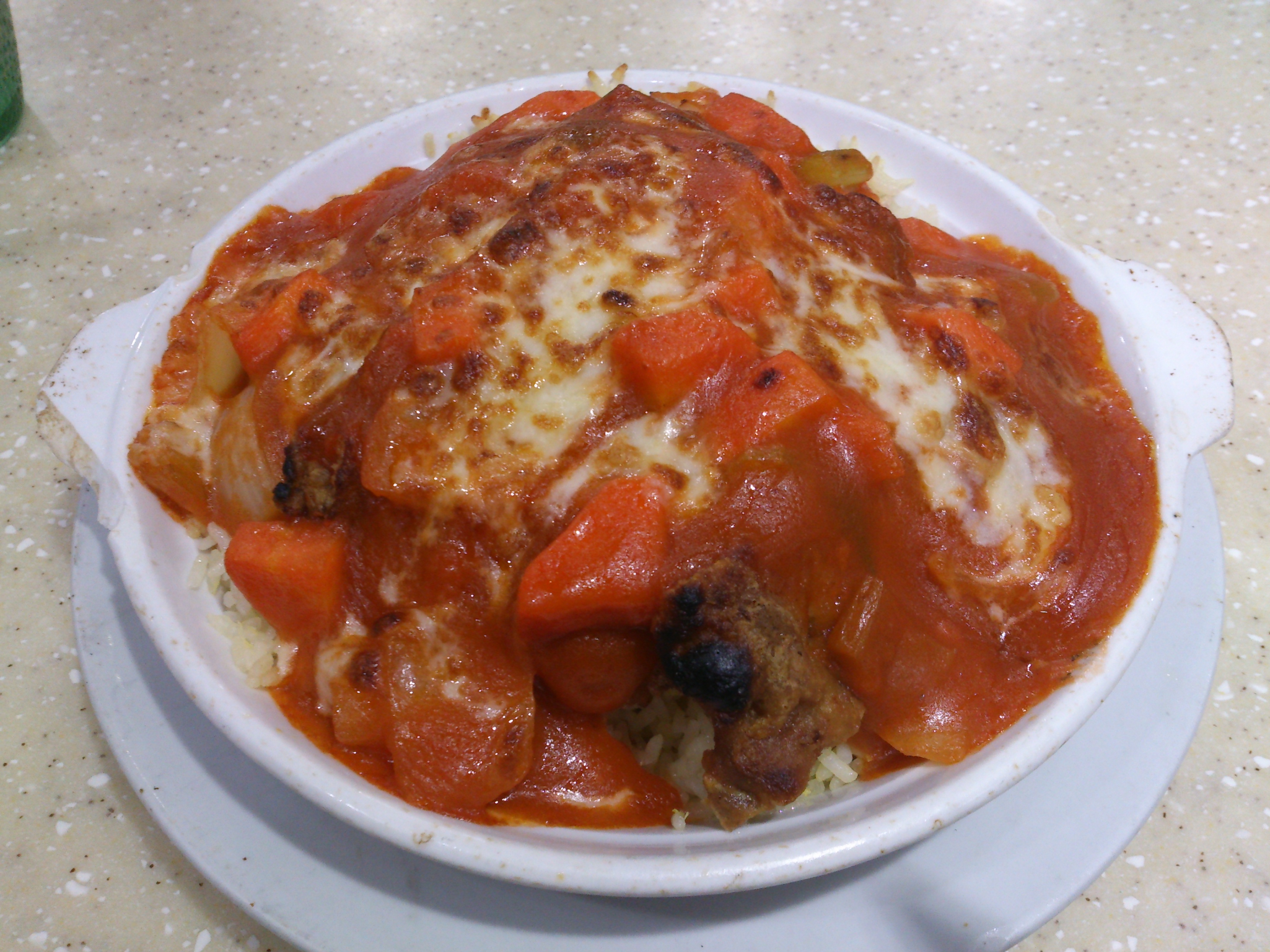 Baked Pork Chop Rice in Tomato Sauce with Cheese